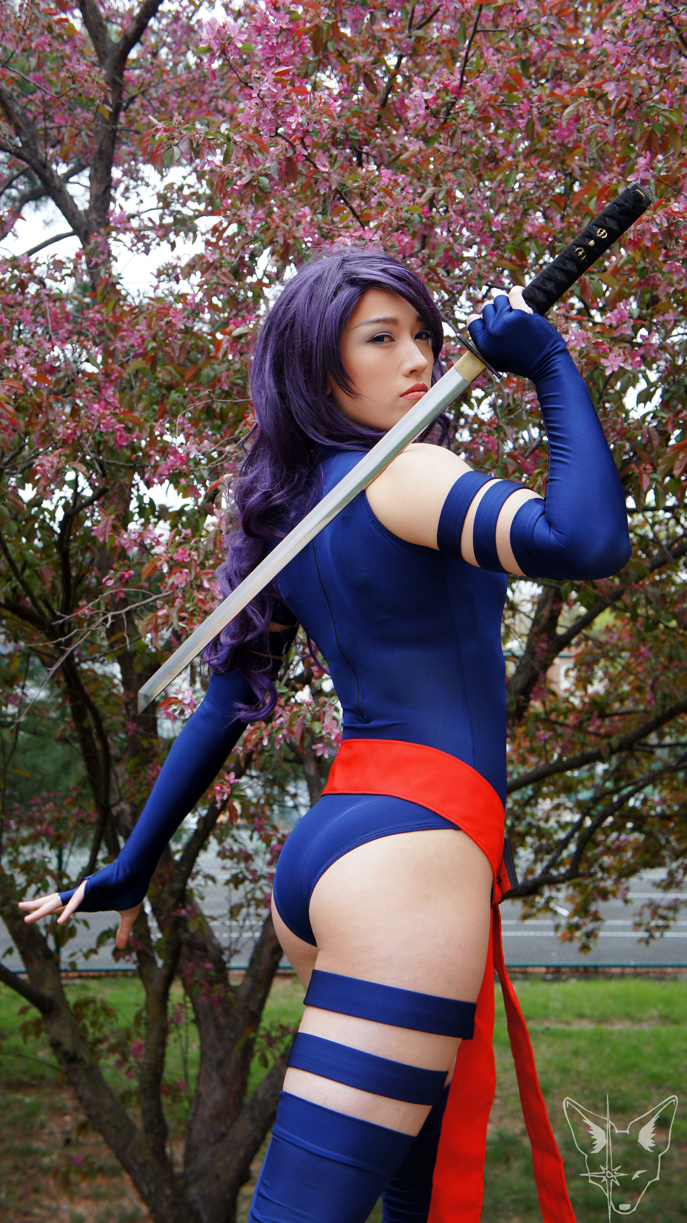 Cosplayer of Psylocke.